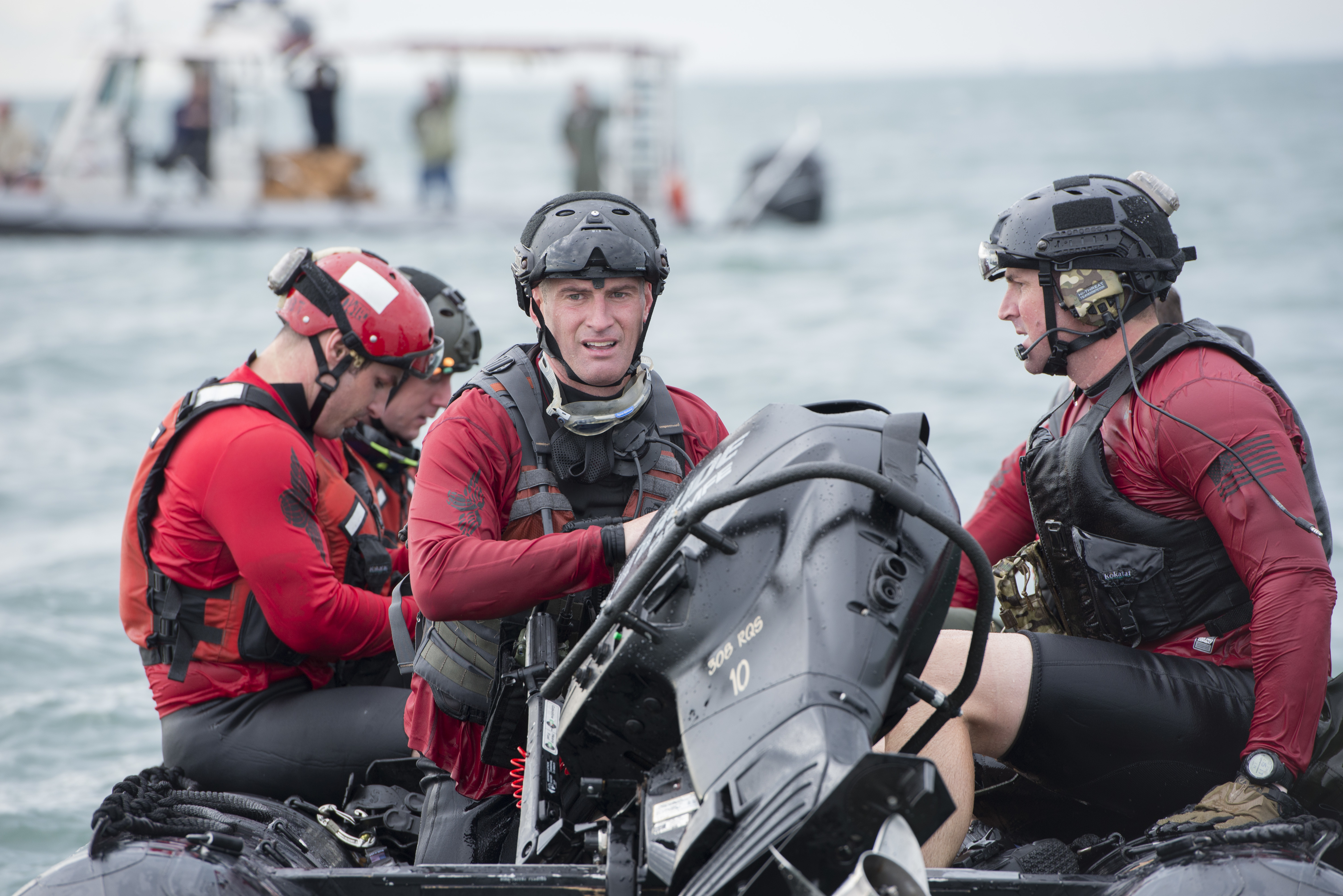 Members of the 308th Rescue Squadron “Guardian Angels” get ready to sail home after descending into the Atlantic Ocean using rescue equipment that was also airdropped from a C-17 Globmaster III during a NASA astronaut recovery exercise Jan. 14 near Cape Canaveral Air Force Station, Fla. Air Force Reserve pararescuemen, combat rescue officers and survival, evasion, resistance and escape specialists trained in their specialty as part of a NASA Commercial Crew Program and Air Force 45th Operations Group Detachment 3 test of capability to recover astronauts quickly and safely in the event of they would need to abort their spacecraft. Detachment 3, the Department of Defense's Human Space Flight Support Office, is the only full-time staff that coordinates and trains personnel to support human spaceflight contingencies. Detachment 3 supports all NASA human spaceflight missions, including Soyuz, Commercial Crew, and Orion, and consists of Air Force and Navy military and civilian personnel from a wide variety of specialties. (U.S. Air Force photo/Matthew Jurgens) (Released) Unit: 45th Space Wing